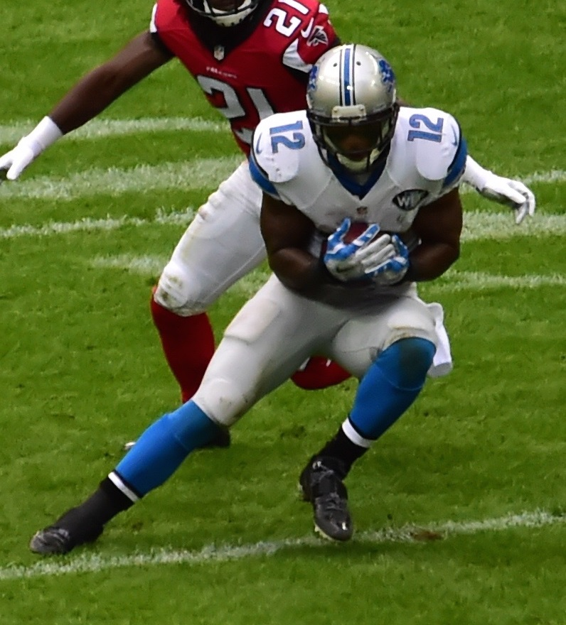 Detroit Lions vs Atlanta Falcons - Wembley 2014